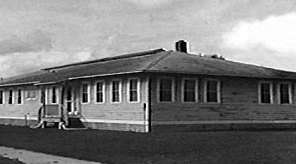 Photo of the original building for the Defense Equal Opportunity Management Institute (DEOMI), then named the Defense Race Relations Institute (DRRI).